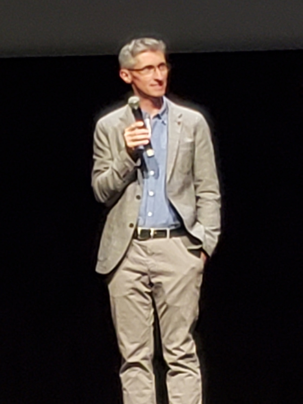 Fabrice Aragno at a Q&A for The Image Book at TIFF Bell Lightbox in Toronto, Ontario, Canada